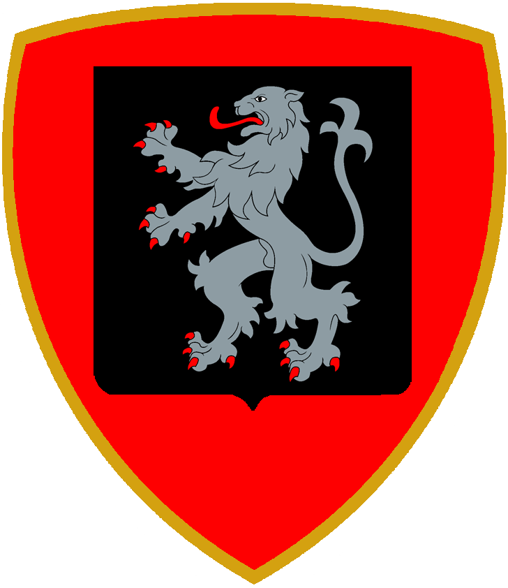 Coat of Arms of the Italian Army "Aosta" Brigade